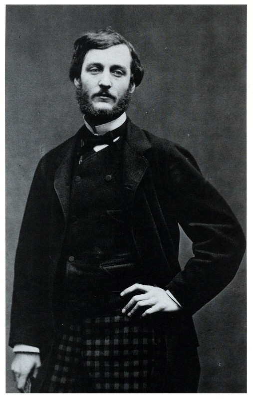 Portrait of Frédéric Bazille by Etienne Carjat